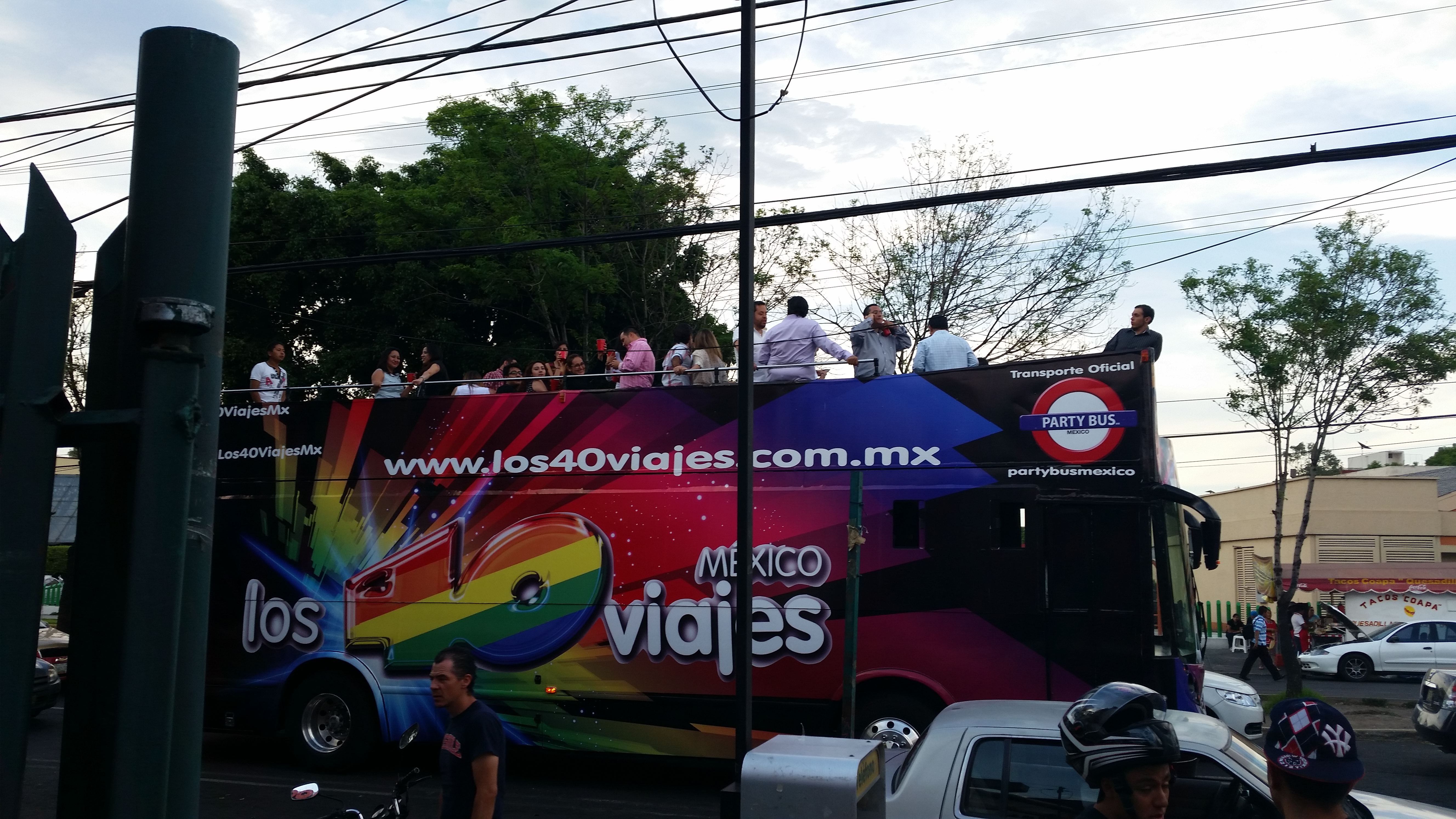 It´s very common here in Mexico City to go parting on a bus